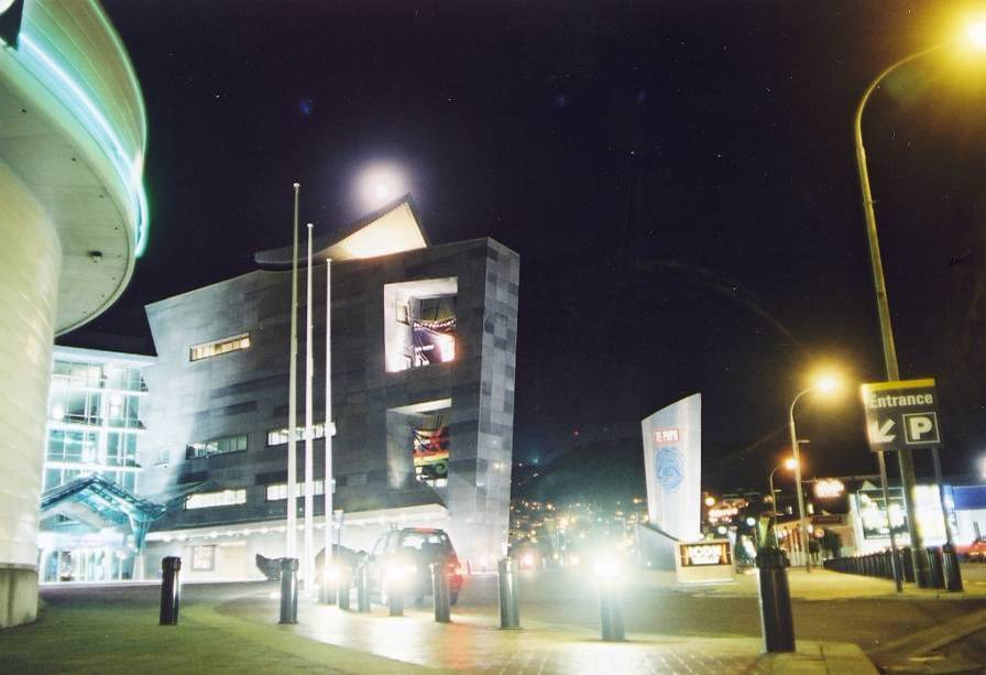 Image of the Full Moon rising over Te Papa (Museum of New Zealand) taken by Paul Moss 2002. Camera Pentax ME super, positive transparency.